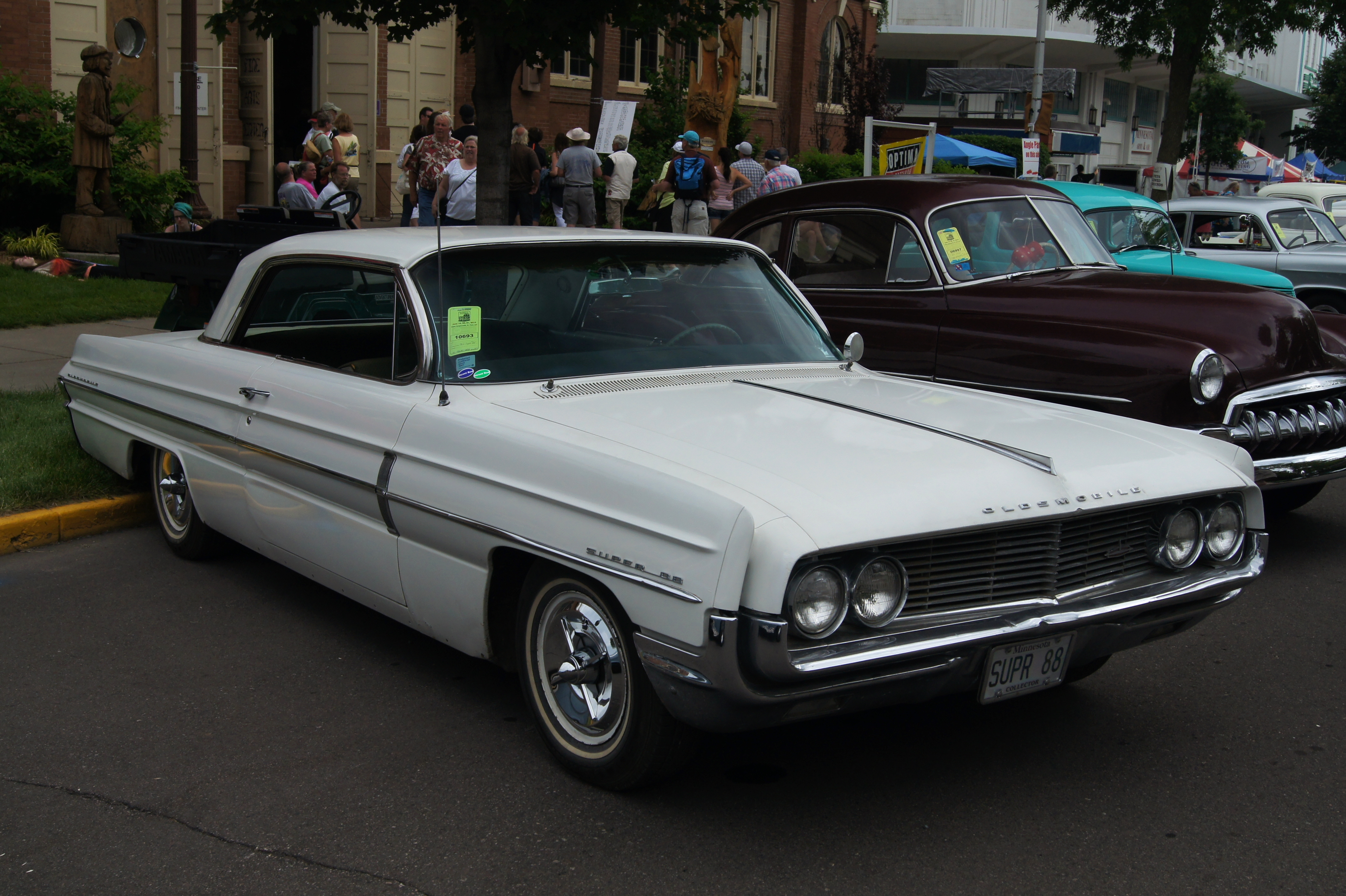 MSRA “BACK TO THE 50′s” 42nd Annual June 19-21, 2015 State Fairgrounds St. Paul Minnesota Click here for more car pictures at my Flickr site.